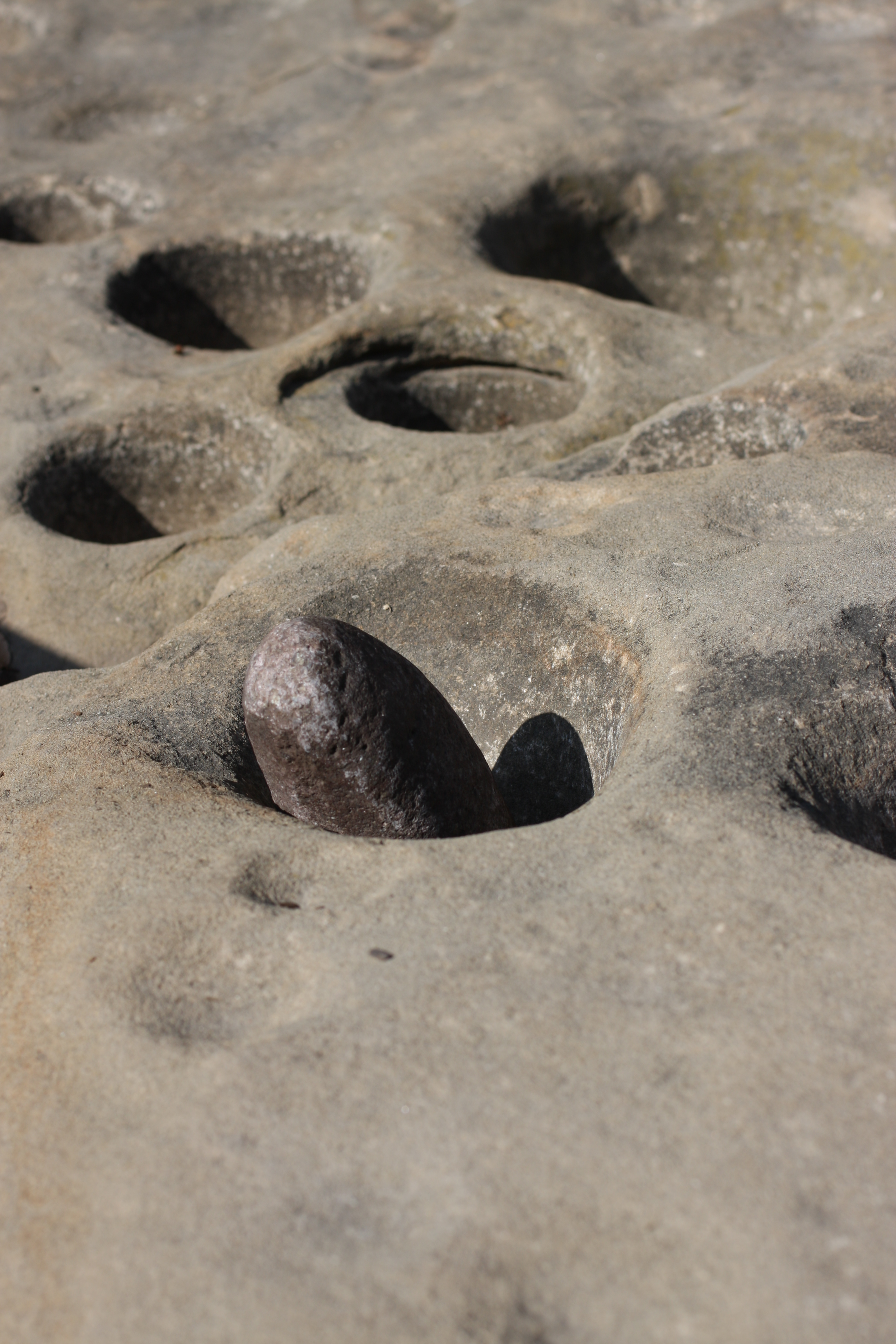 Mortars used by the Juaneño people